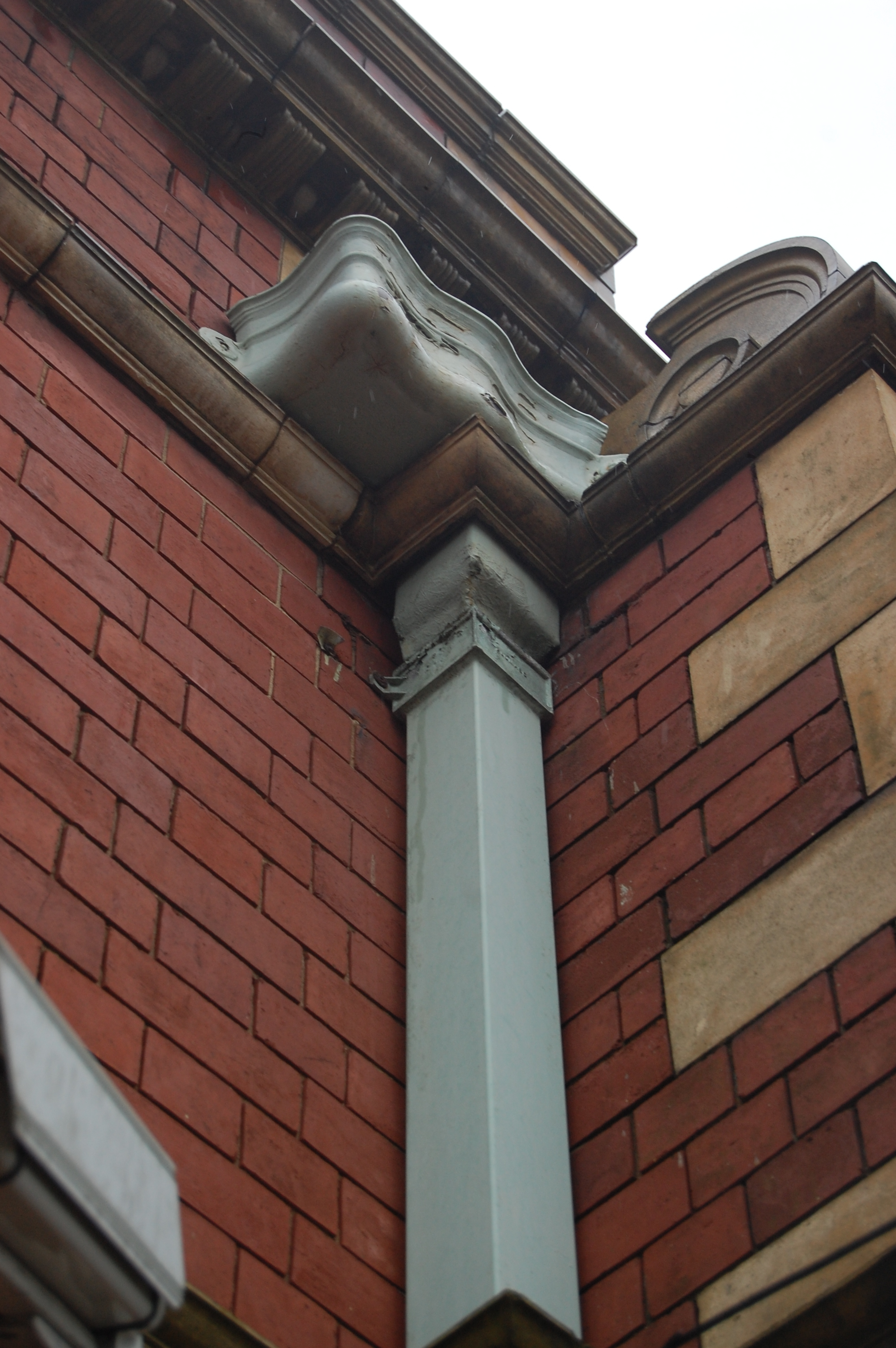 Drainpipe on the Friends Institute, Moseley, Birmingham, England.